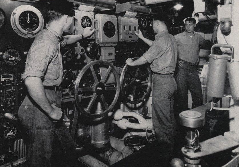 View of the main engine room aboard the U.S. Navy light cruiser USS San Juan (CL-54), during World War II.